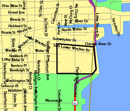 Map of the location of Lakeshore East